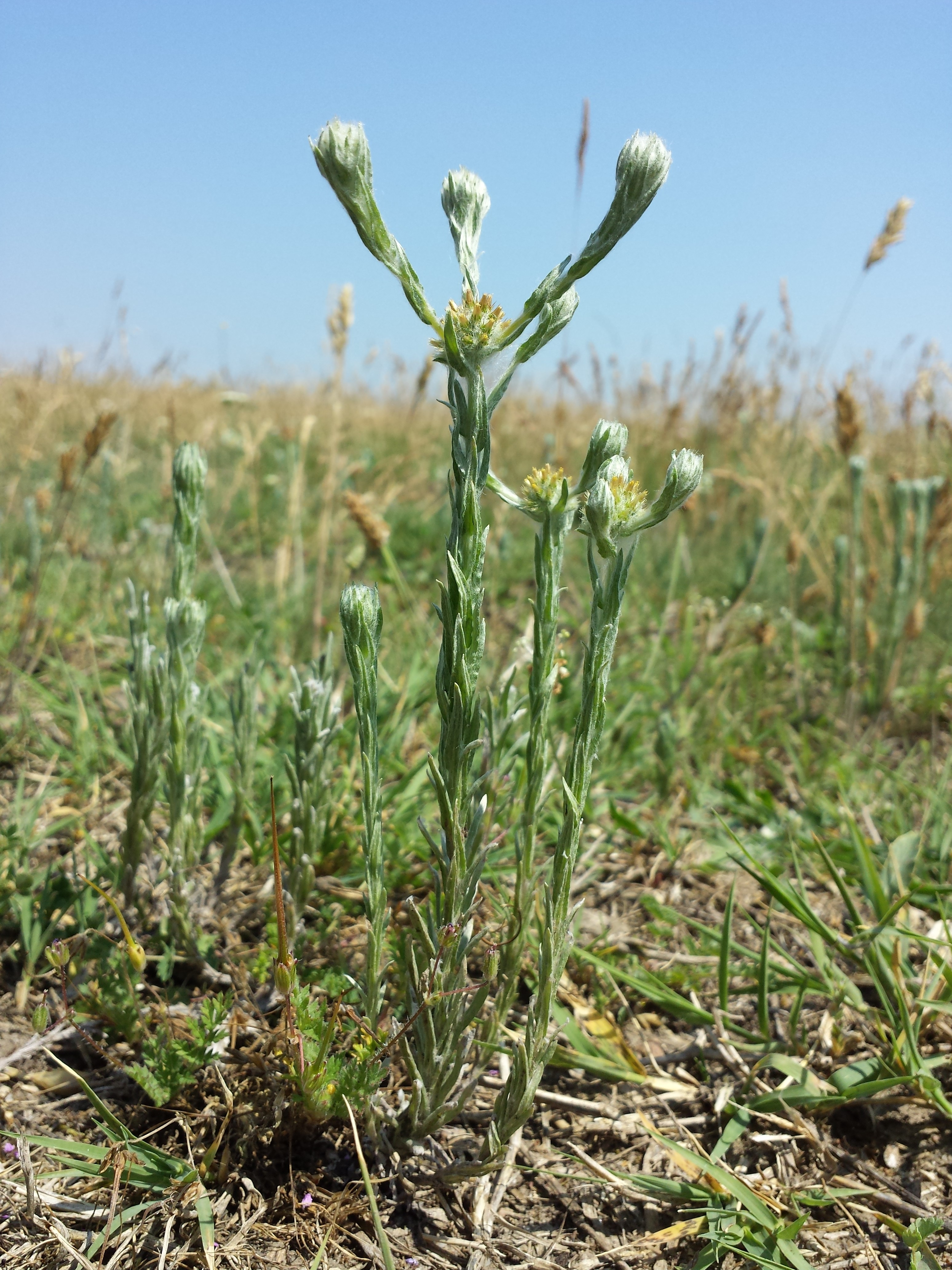 Habitus Taxonym: Filago vulgaris ss Fischer et al. EfÖLS 2008 ISBN 978-3-85474-187-9; det. Gergely Király 2015-06-07 Location: Veszprém County, Hungary - ca. 200 m a.s.l. Habitat: sandy ruderal place